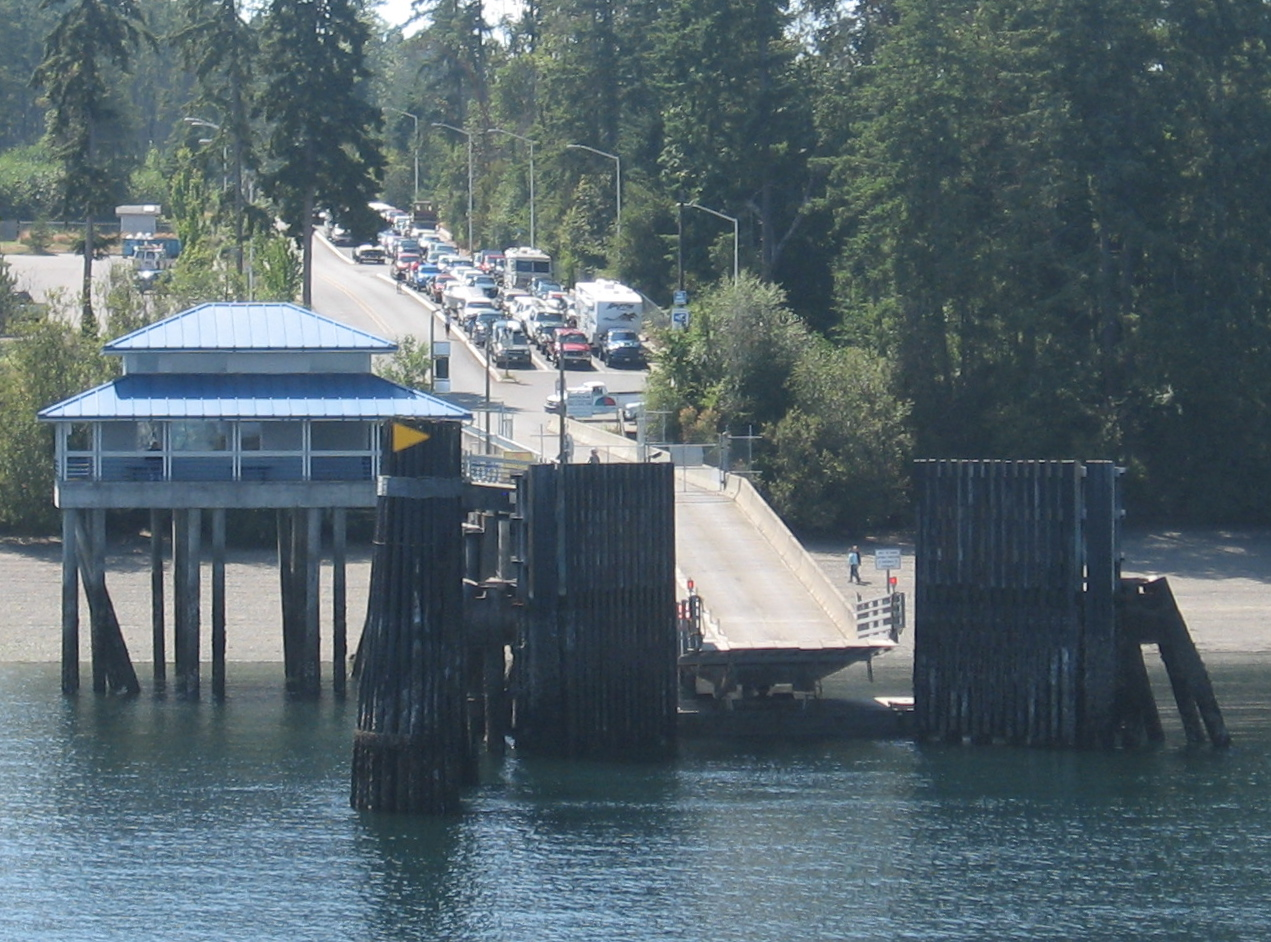 Anderson Island ferry terminal (cropped from original)